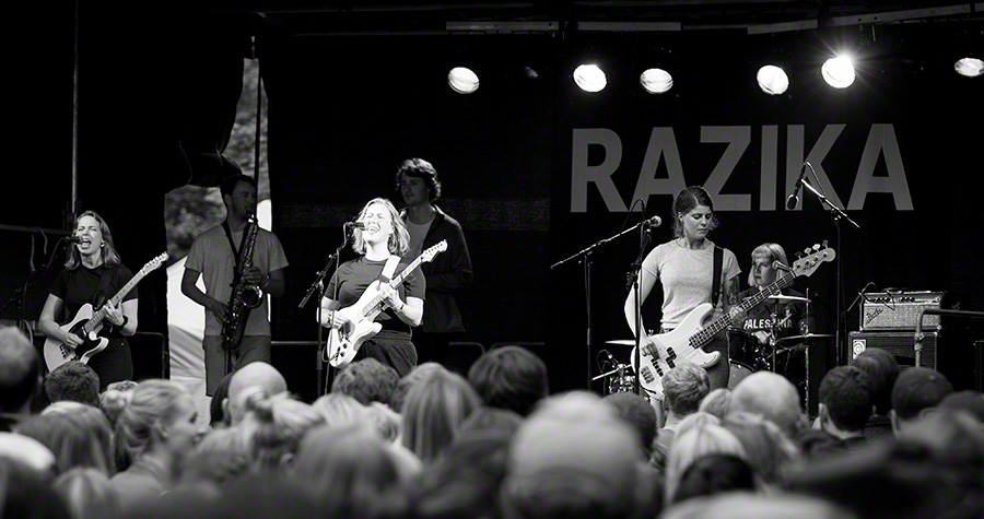 Razika performs at Piknik i Parken in Oslo on 24. June 2016. Razika consists of four women all born in 1991, from Bergen/Norway.Lineup:Marie Amdam (guitar / vocal)Marie Moe (bass)Maria Råkil (guitar / vocal)Embla Karidotter (drums)